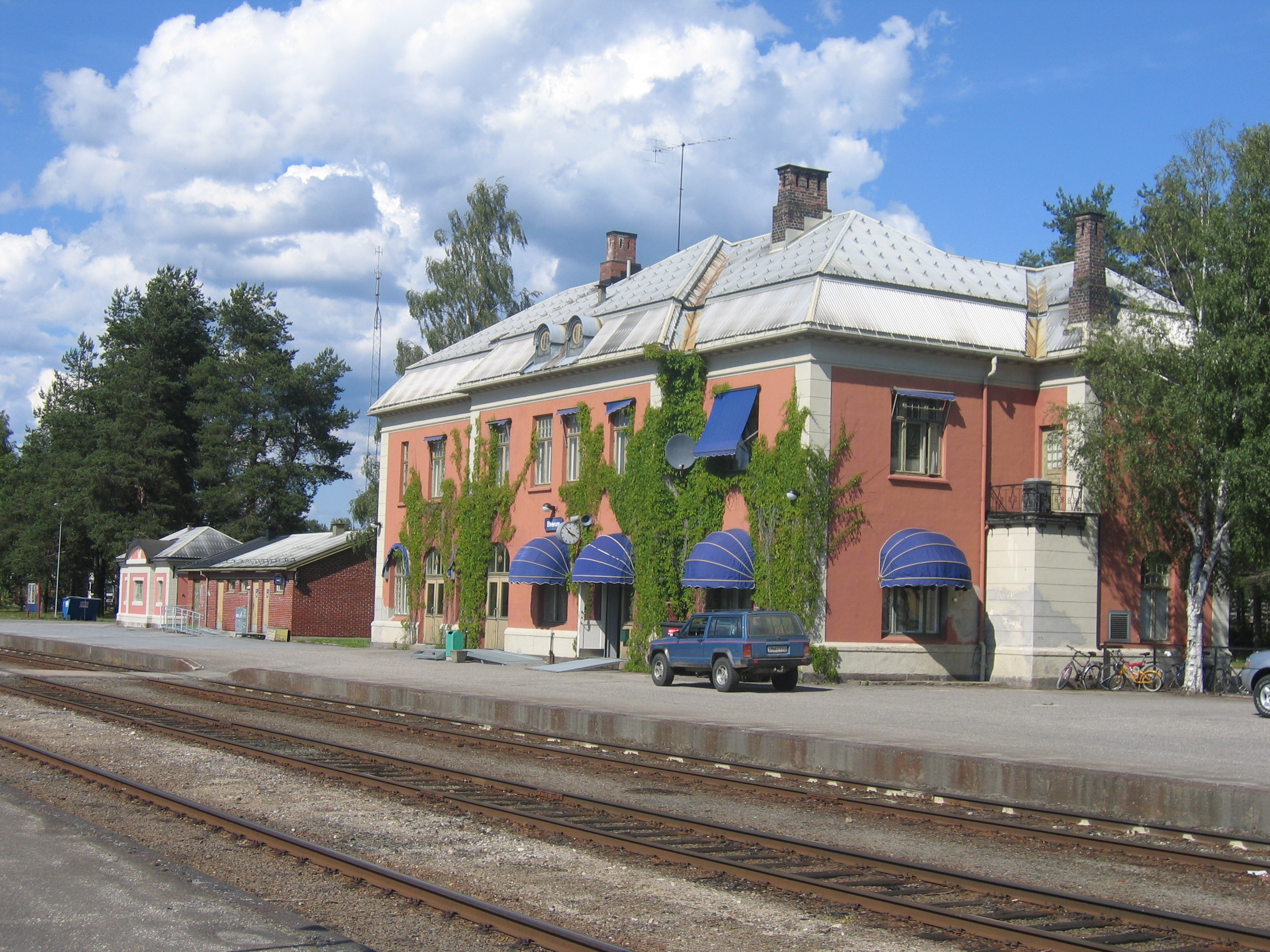 Elverum train station, Hedmark, Norway.